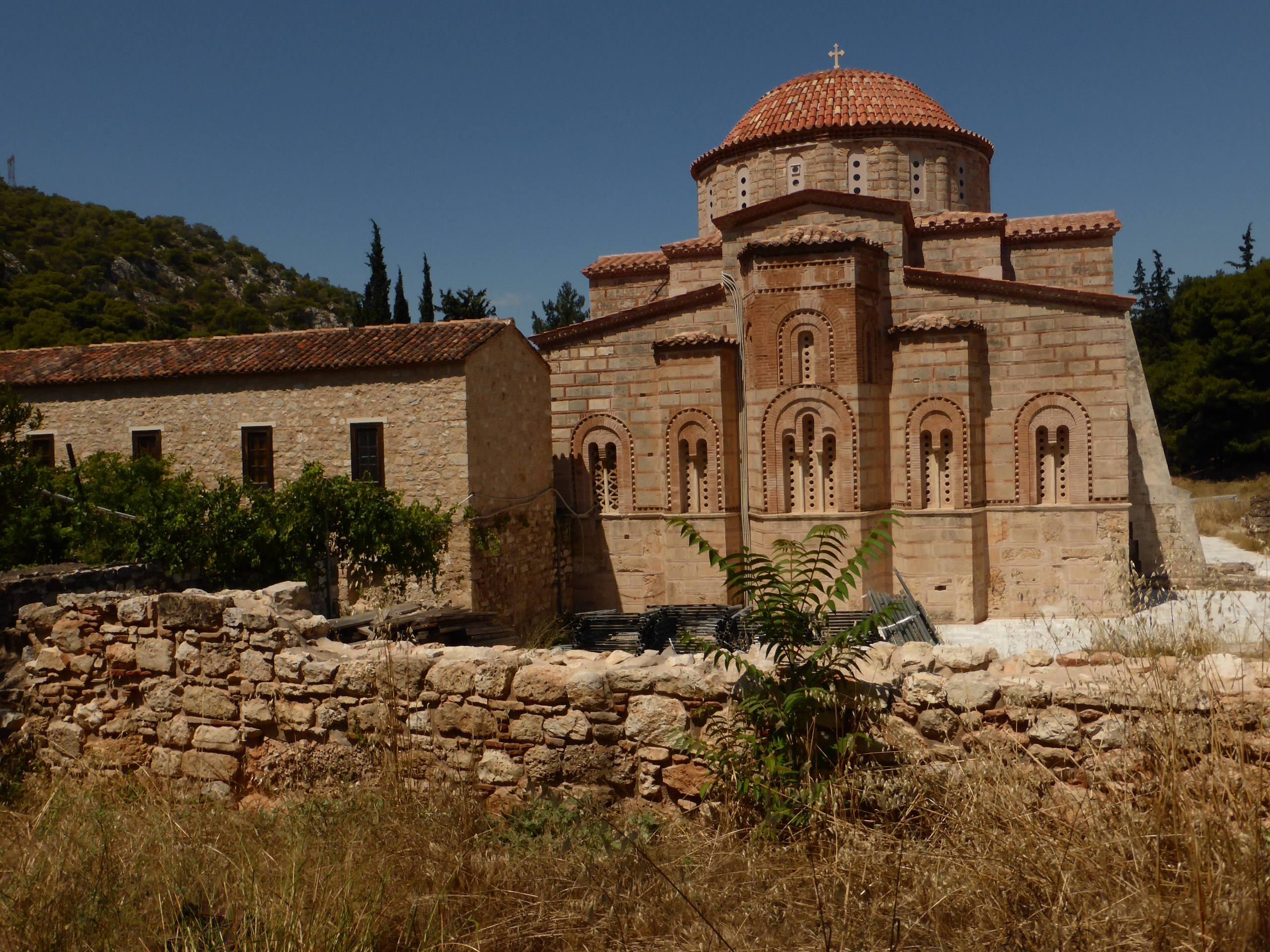 Monastery of Daphni (2017)